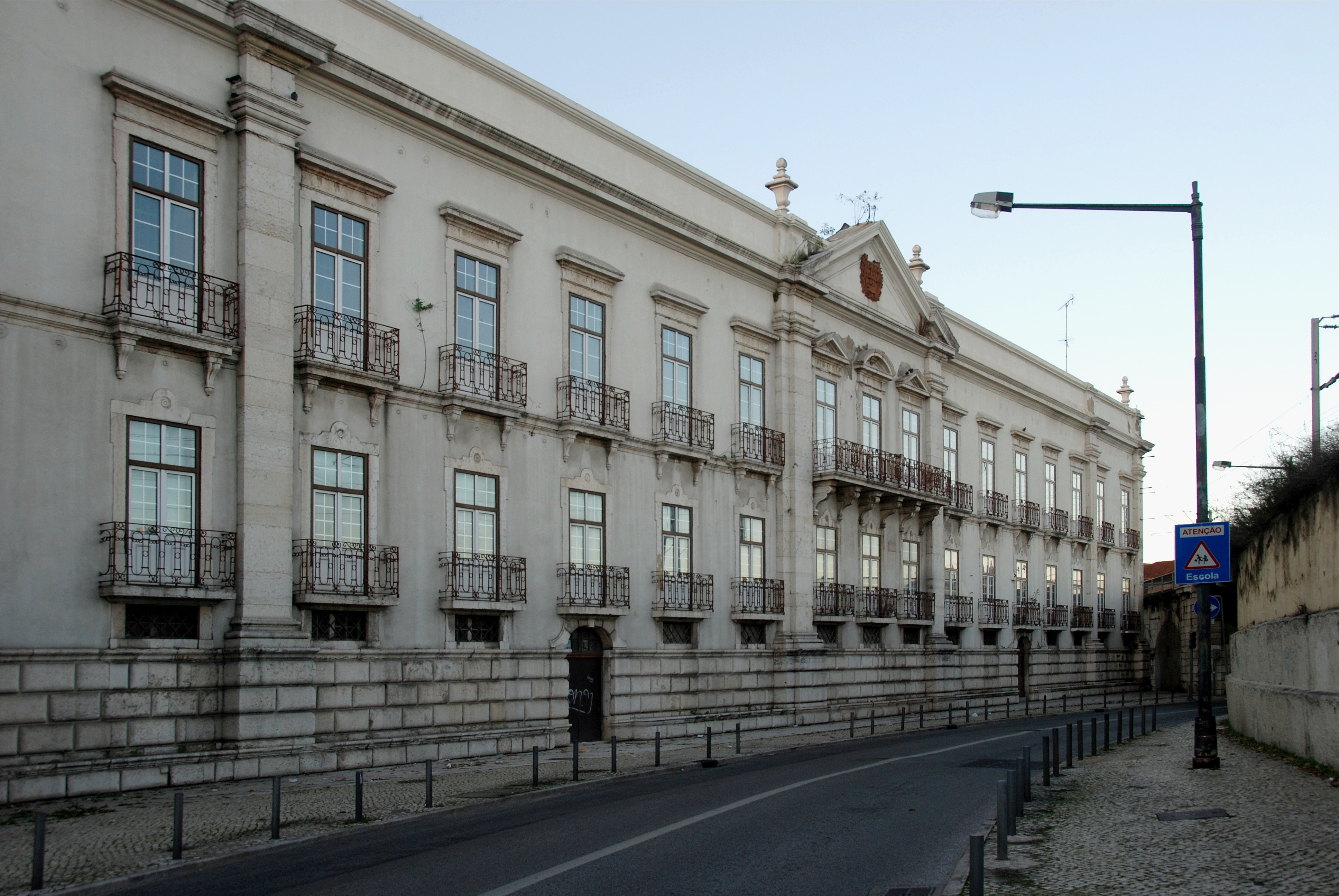 Mosteiro da Madre de Deus (Monastery of the Mother of God), Lisboa, Portugal.